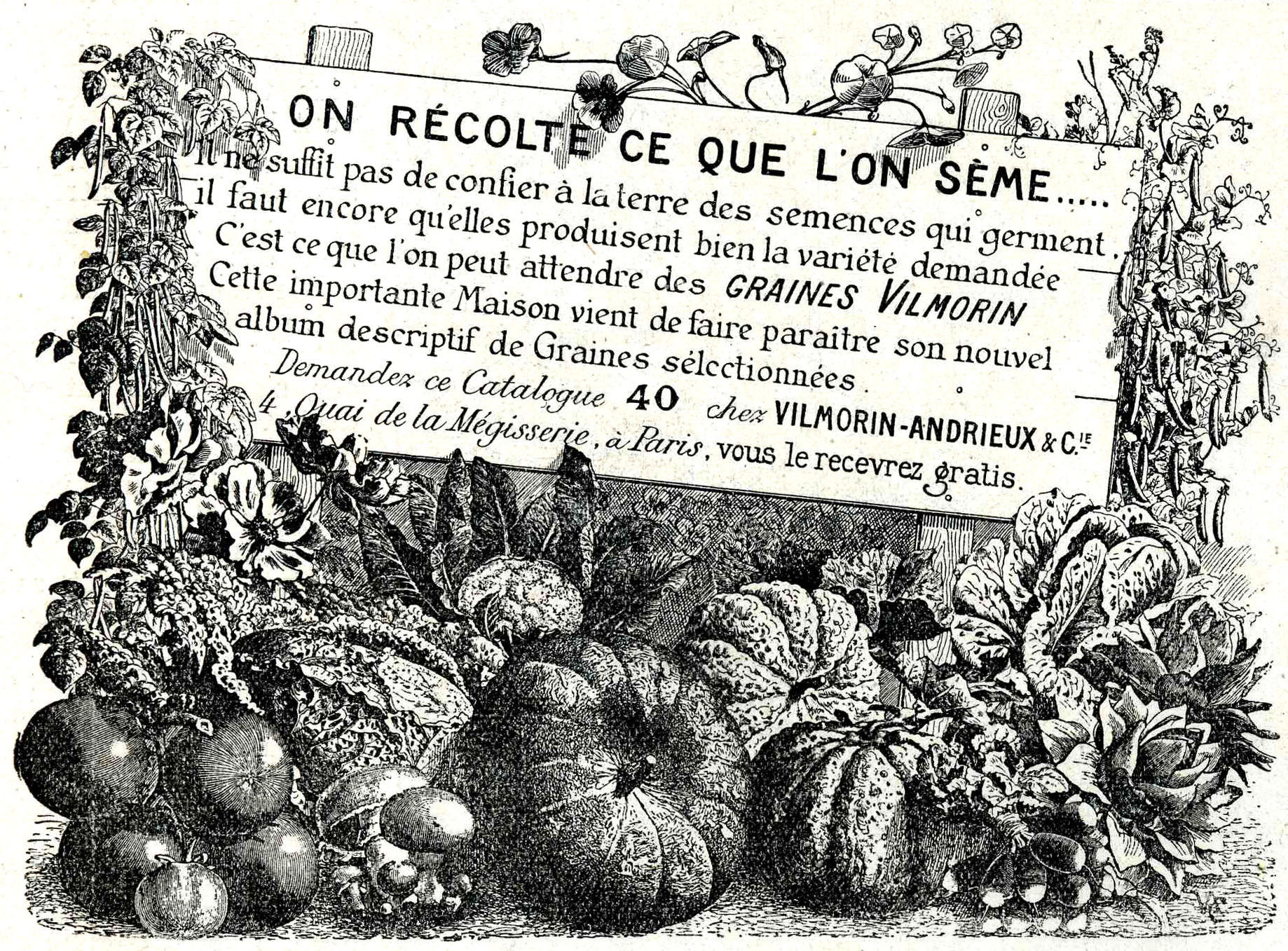 1914 advertisement for Vilmorin seeds in Le Miroir